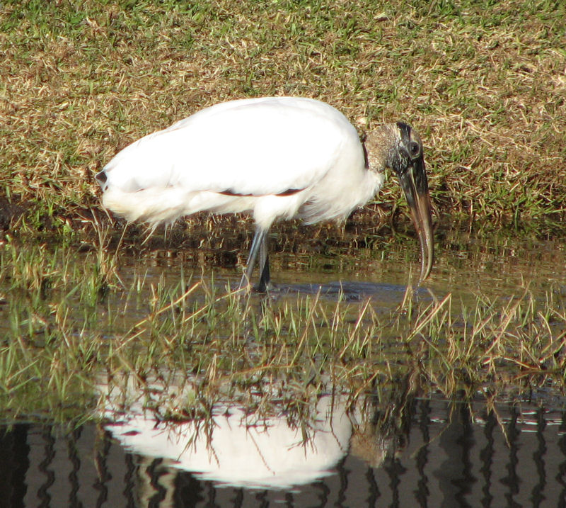 A feeding Wood Stork, in a lagoon in northeastern Florida.